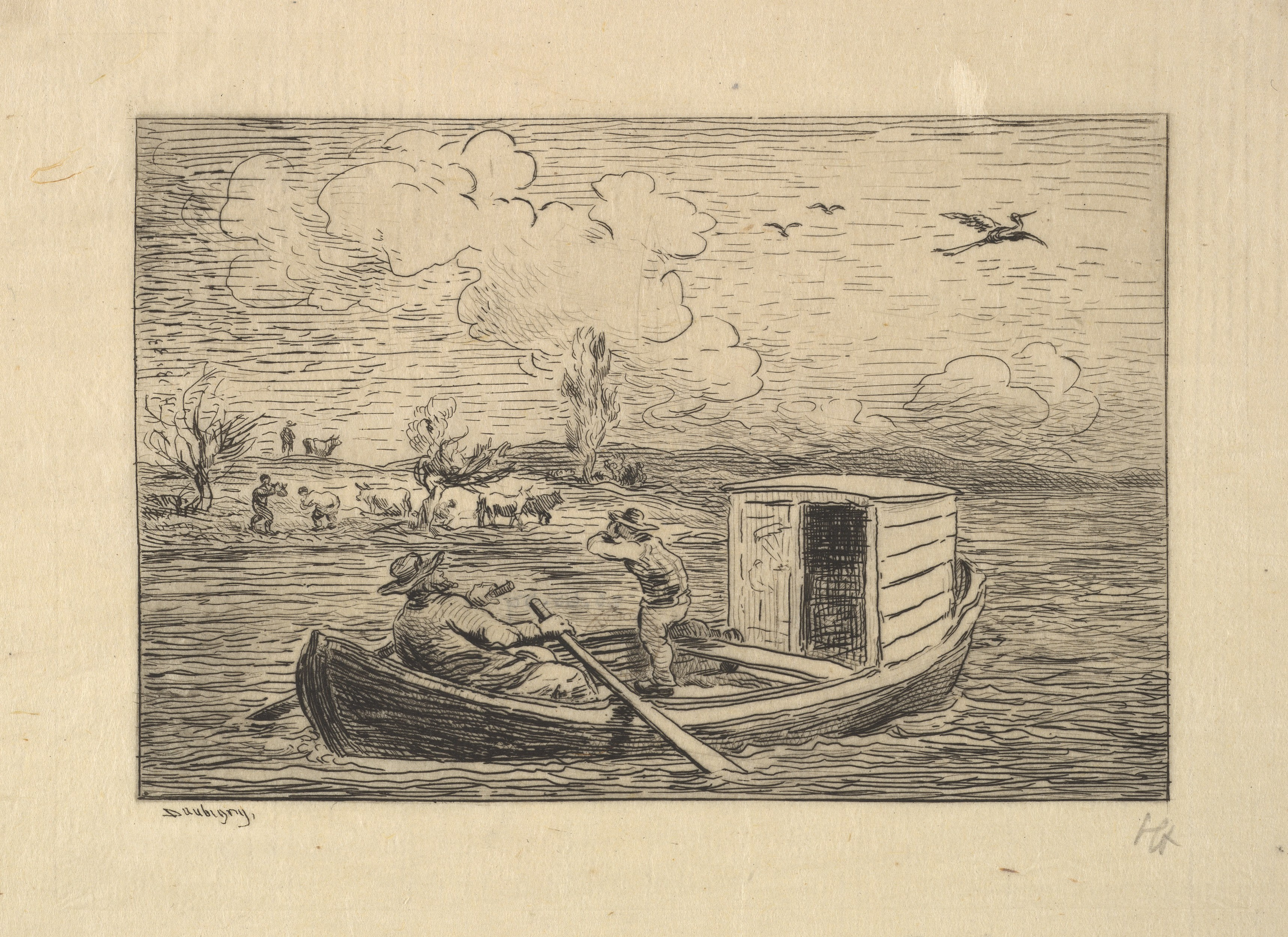 Daubigny selfportrait aboard his workshop boat Le Botin.